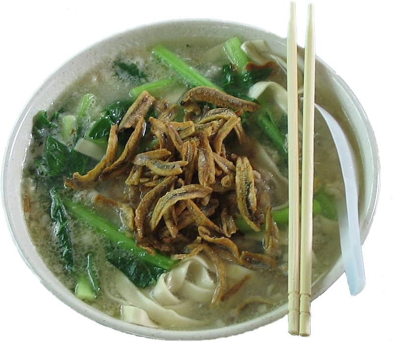 Qiu lian ban mian at Bedok Bus Interchange Hawker Centre.